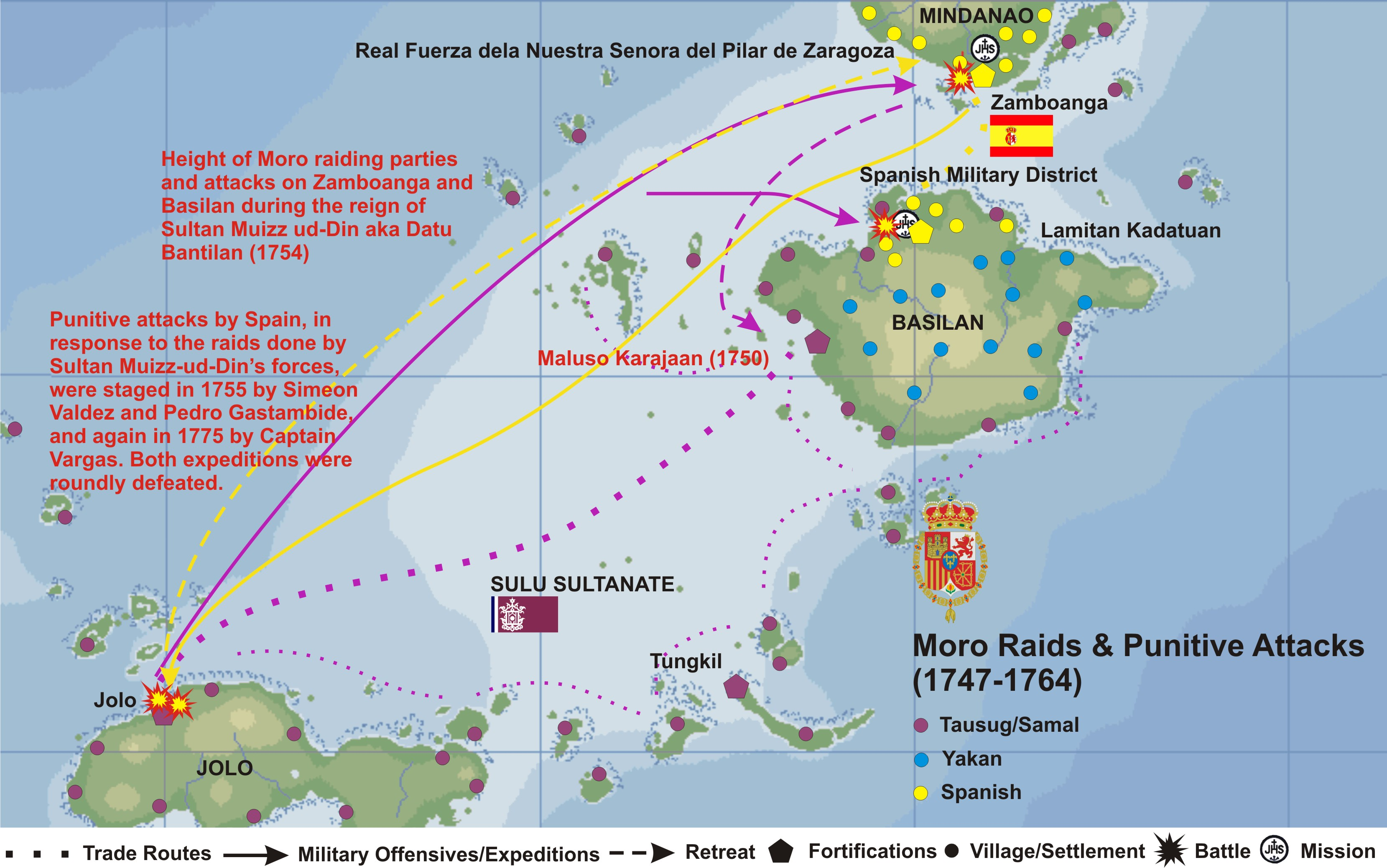 Basilan_Expanded_1747-1764